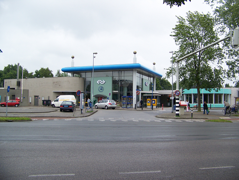 Railway station of Assen in 2007. This building was demolished in 2016 and replaced by new construction in 2018.